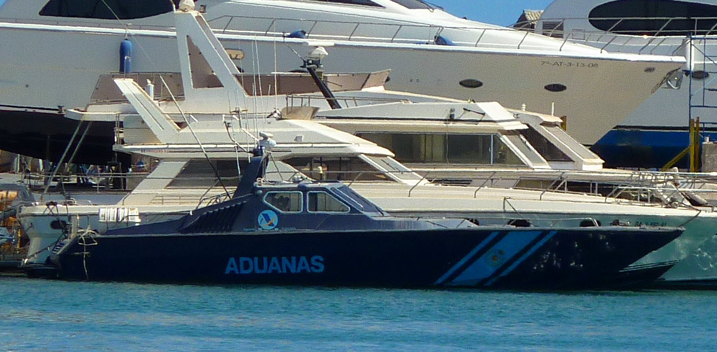 Spanish Customs (Servicio de Vigilancia Aduanera) HJ class High Speed Interception boat "HJ-VII".